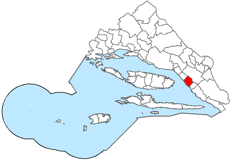 Position of municipality inside Split-Dalmatia County